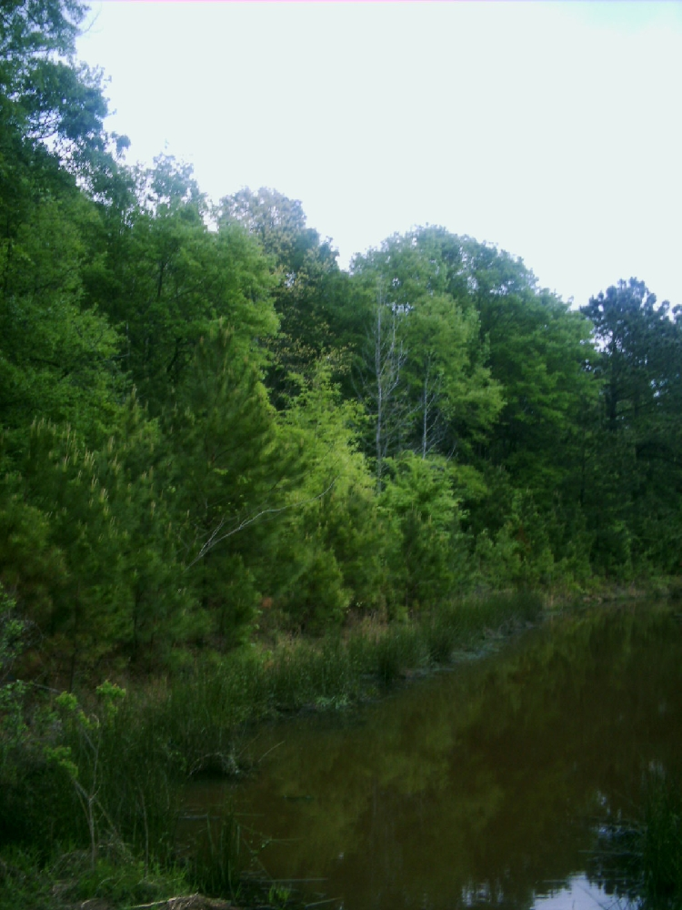 A stream running through the Piney Woods — near Marshall in Harrison County, Northeast Texas.